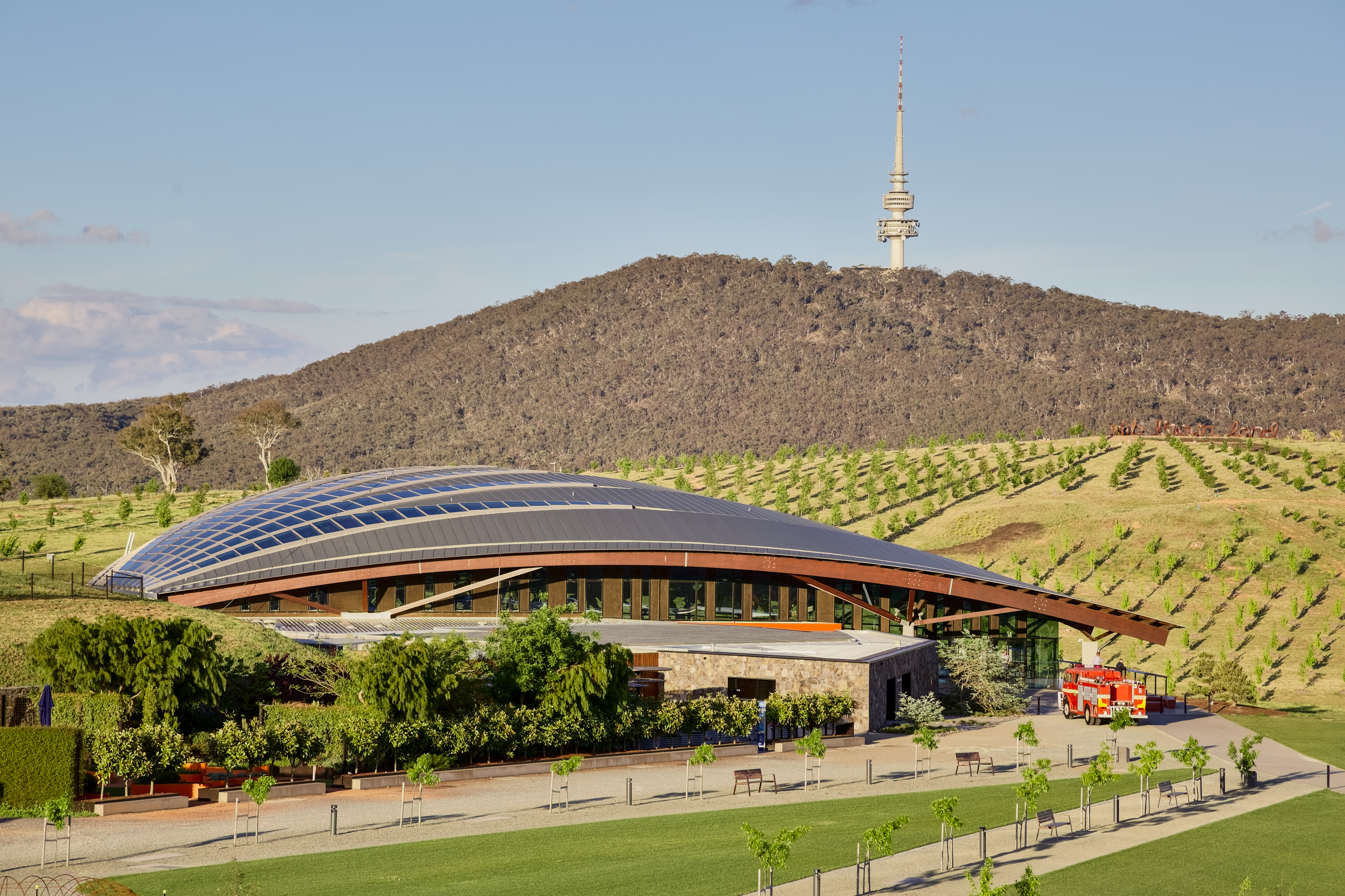 The Canberra National Arboretum (bottom), with Telstra Tower, Canberra ACT Australia